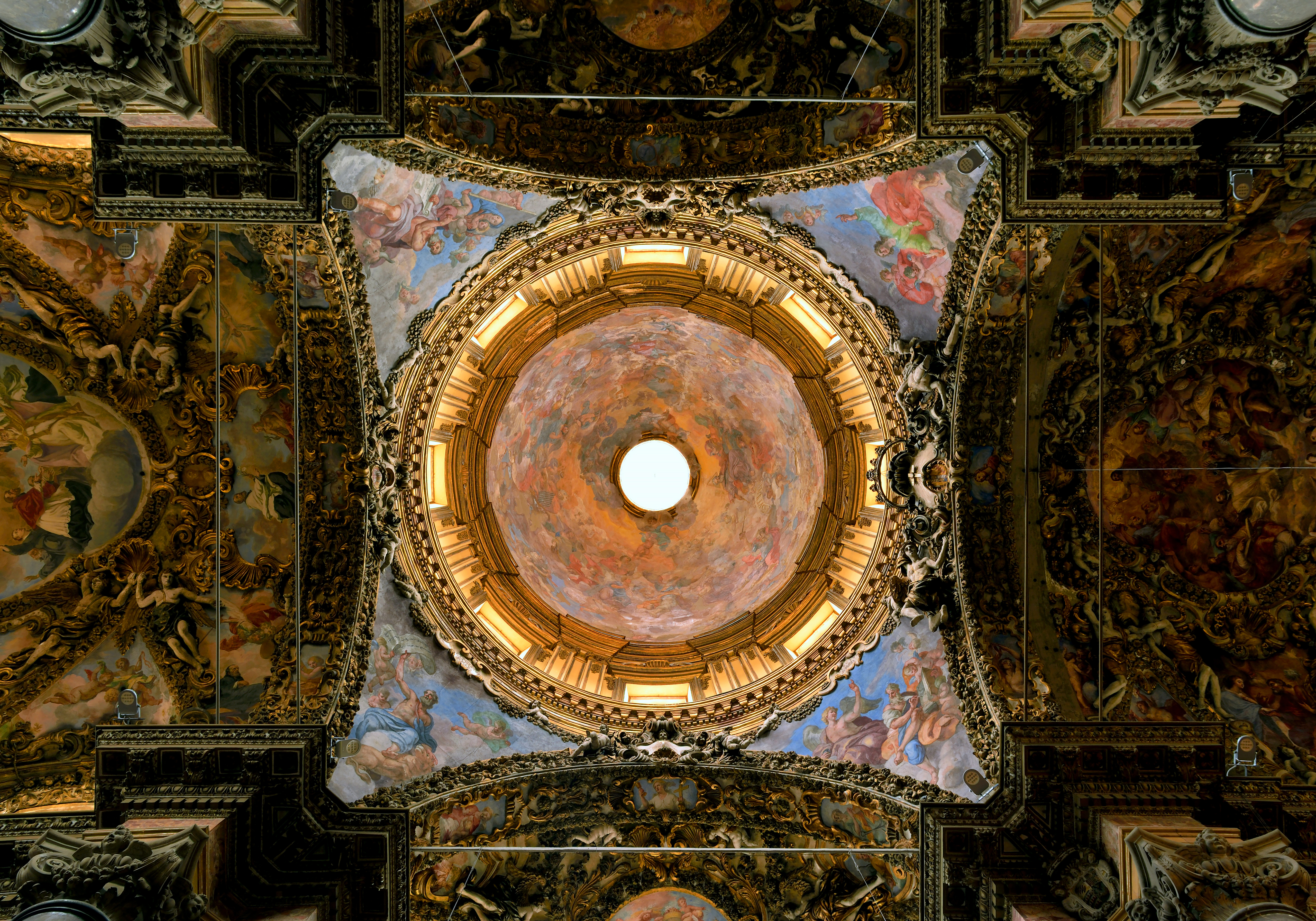 San Giuseppe dei Teatini (Palermo) - Dome